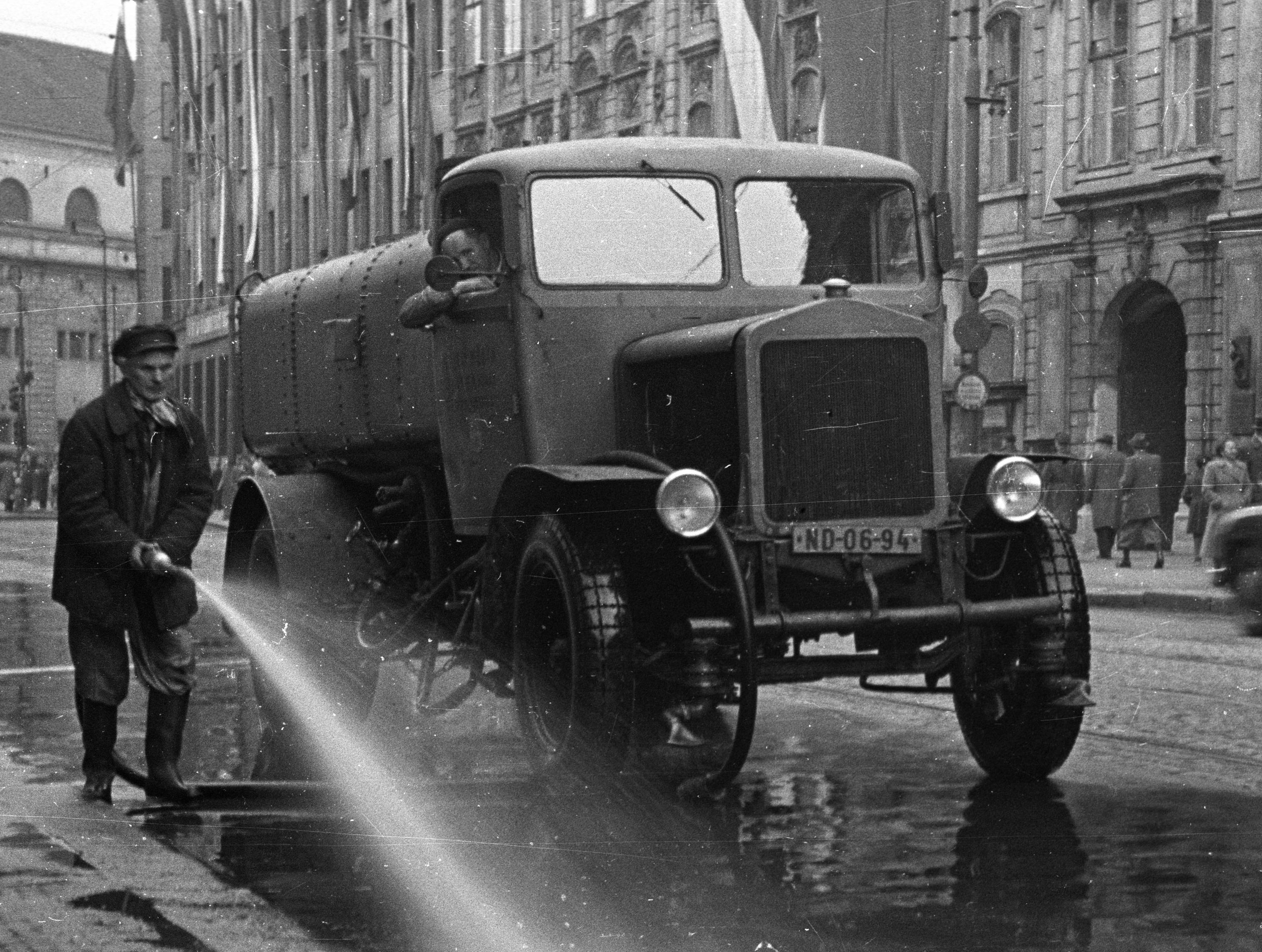 FOTO:Fortepan — ID : archive copy at the Wayback Machine (archived on 1 February 2019)